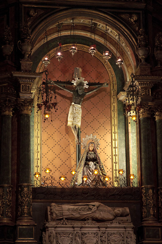 Cathedral of Barcelona. Chapter house.